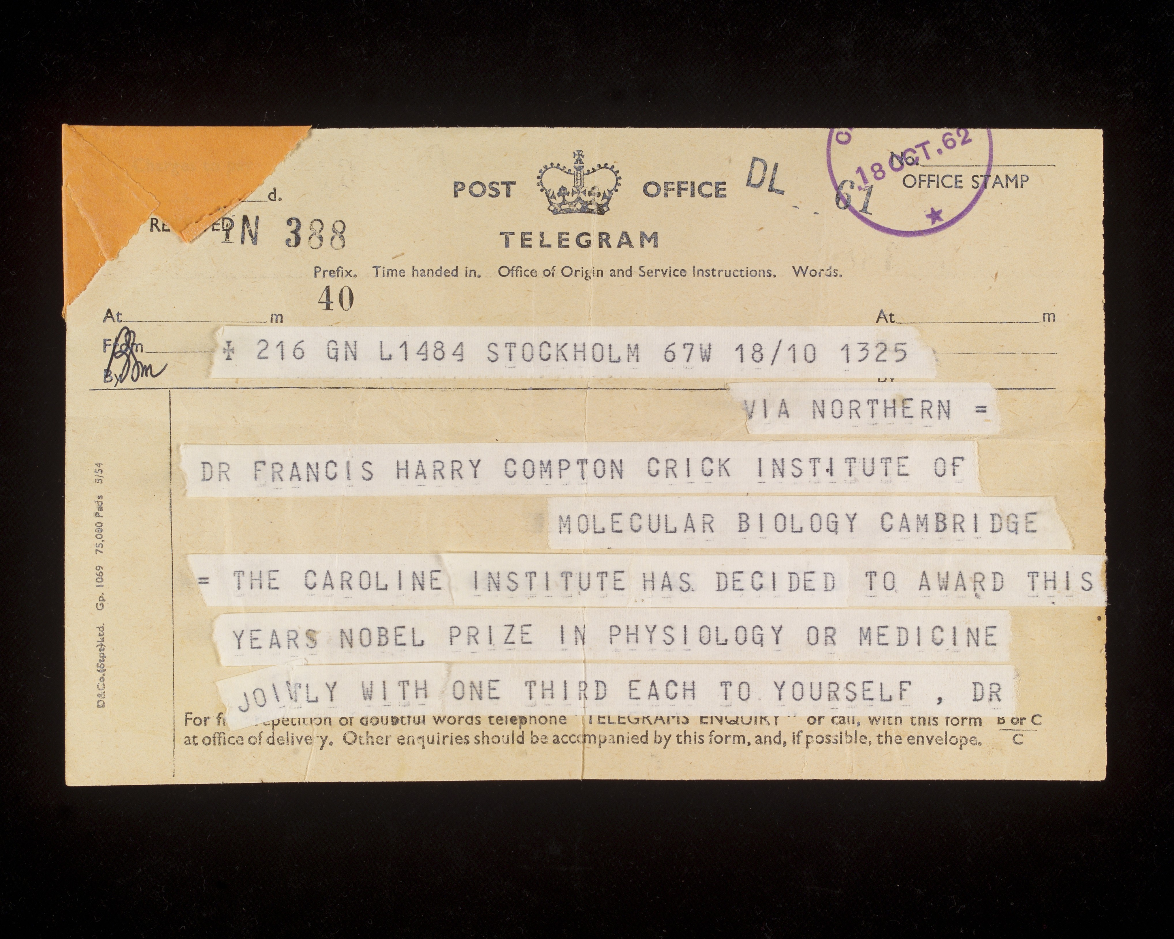 Part one of a two part Post Office Telegram (18 October 1962) to Francis Crick from Sten Friberg, Rector, Karolinska Institutet, Stockholm, informing him of the award of the Nobel Prize (1962) in Physiology or Medicine to himself, James Watson and Maurice Wilkins for "discoveries concerning the molecular structure of nuclear (sic) acids and its significance for information transfer in living material." Archives & Manuscripts Keywords: Genetics; Molecular Biology; Nucleic Acids; Nobel Prizes; Sten Friberg; James Dewey Watson; Caroline Institute; Post Office; Telegram; DNA; Maurice Hugh Frederick Wilkins; Nucleic acid